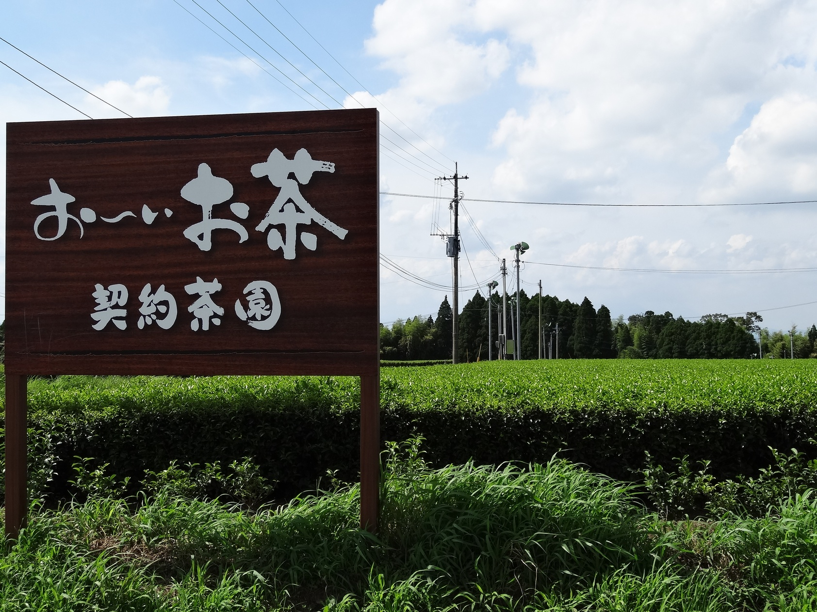 The Tea Plantation for "O-i Ocha" (Umekita, Miyakonojo City, Miyazaki Prefecture, Japan)